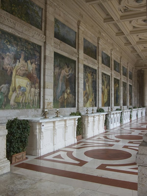 The old bath of Montecatini Terme, Italy